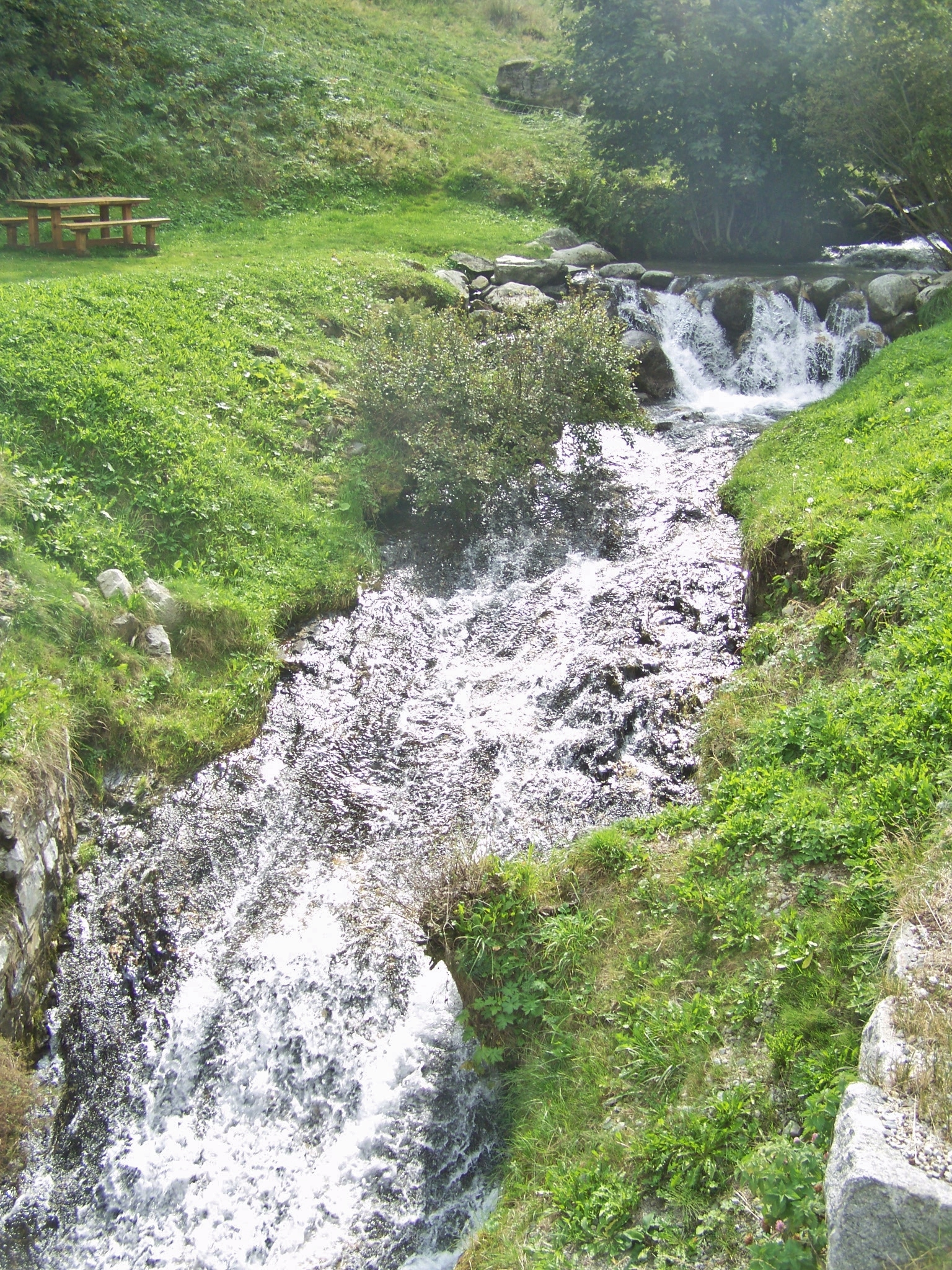 Sight of river Eau Rousse in Celliers (commune of La Léchère) in Savoie, France.